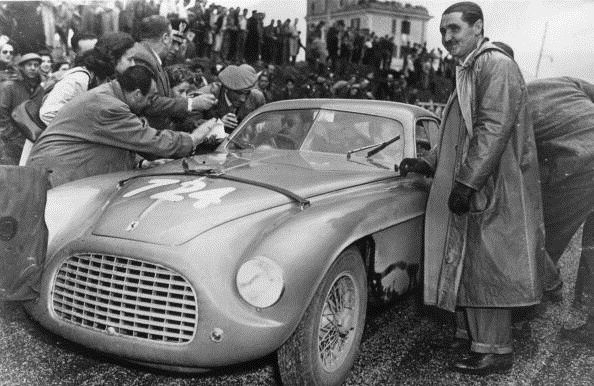 Entry #724 of the Mille Miglia in Italia on 23 April 1950 was the 1950 Ferrari 195 S Touring Berlinetta s/n 0026M driven by its first owner Giannino Marzotto and Marco Crosara.[1] [2]